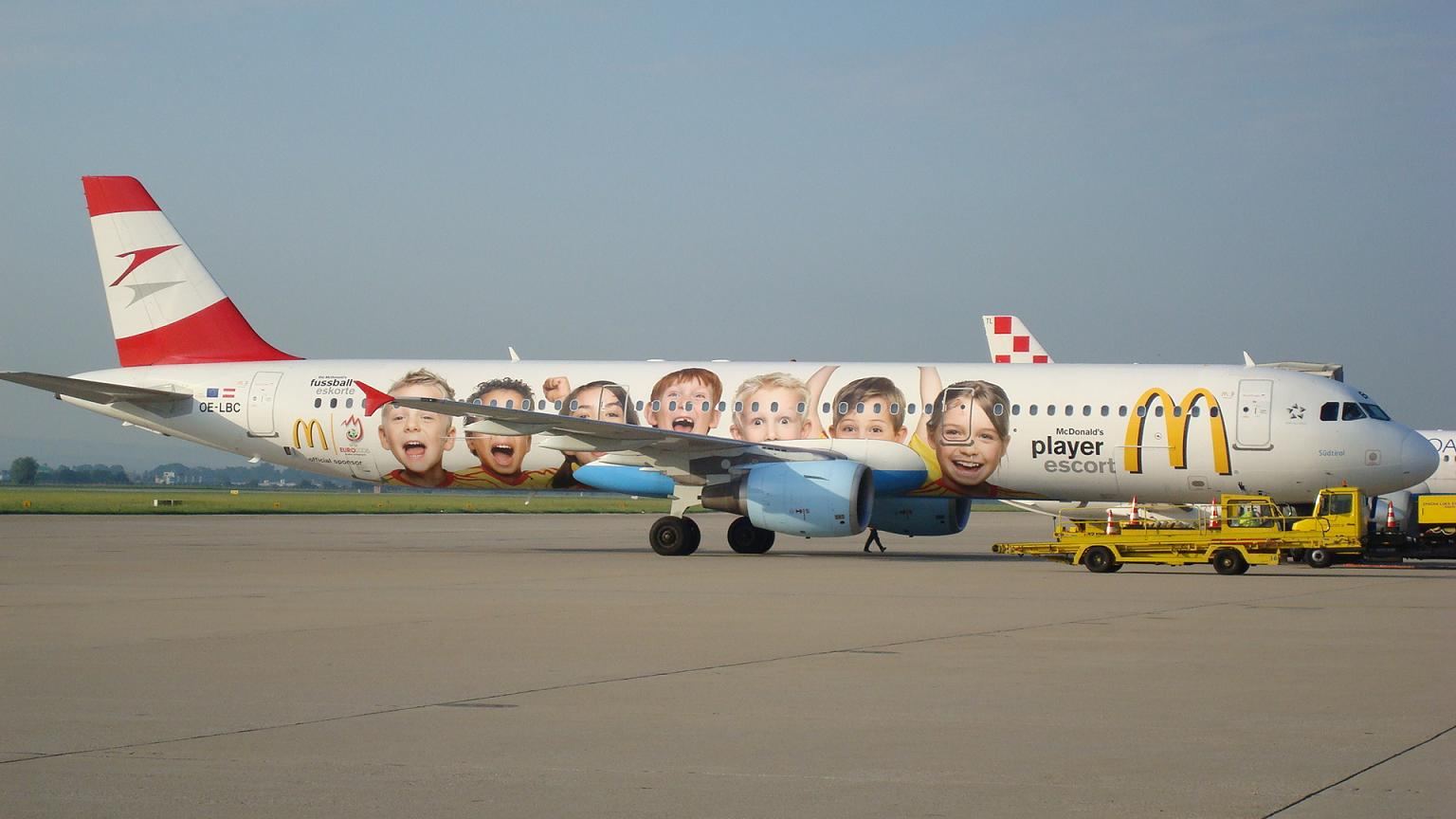 Austrian Airlines Airbus A321-111